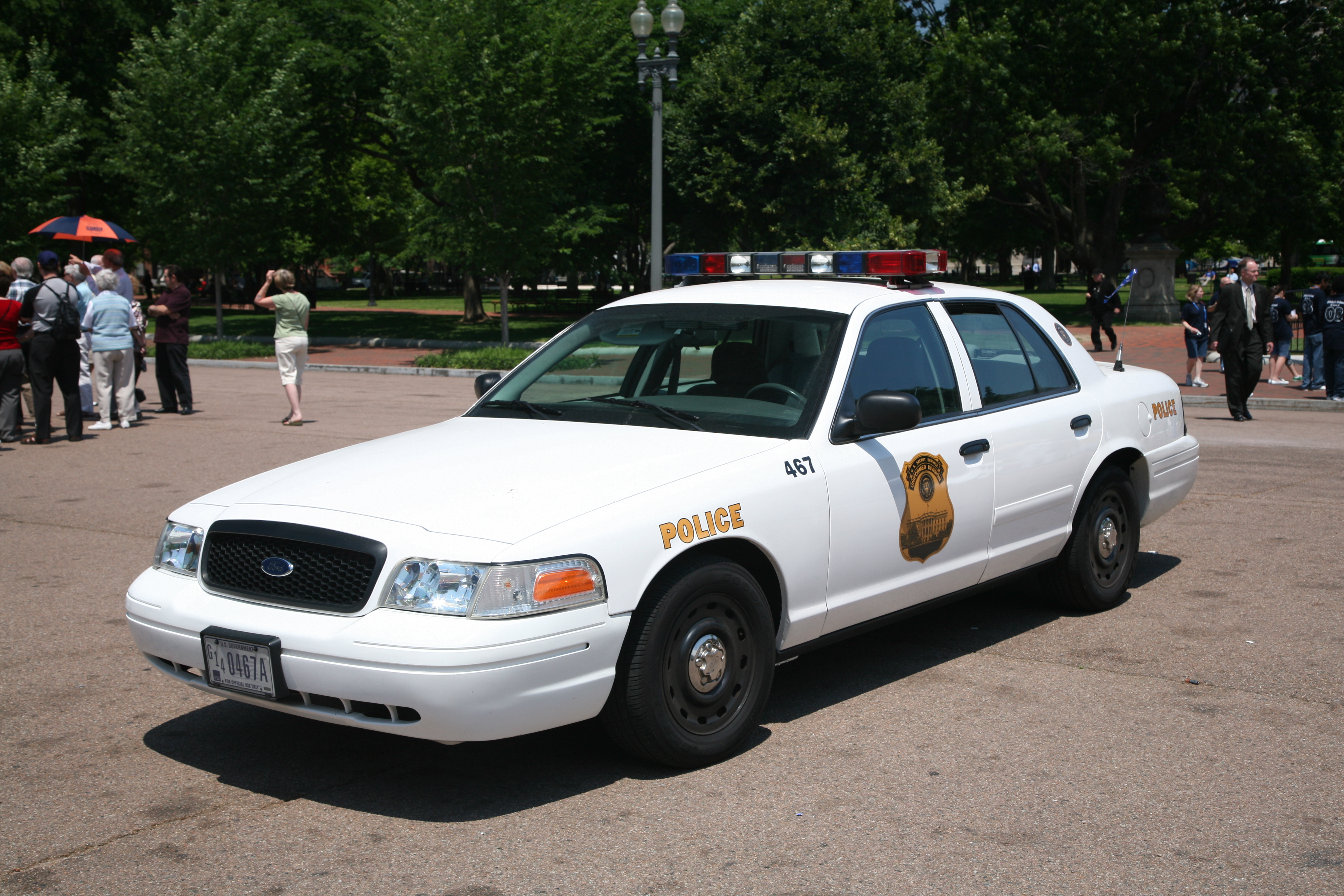 Police cruiser of the Uniformed Division of the Secret Service, at the White House in Washington, DC